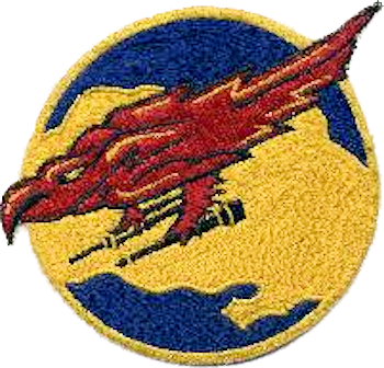 123d Fighter-Interceptor Squadron - Emblem